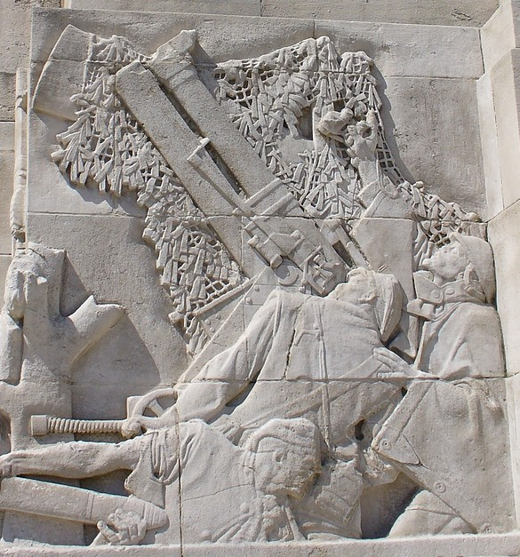 Relief of the Royal Artillery Memorial